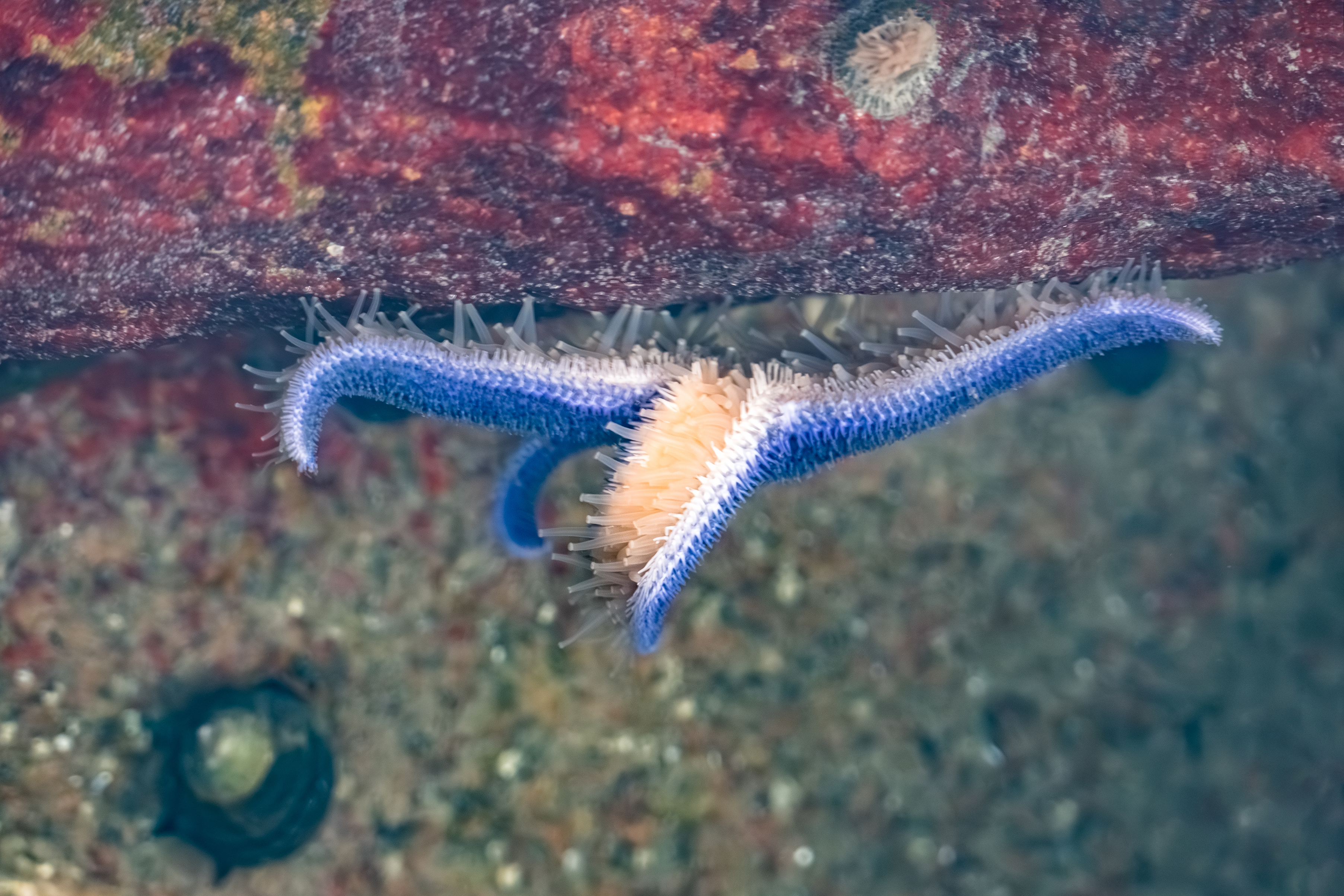 Common starfish (Asterias rubens) in Brofjorden at Govik, Lysekil Municipality, Sweden. The red on the stone is a form of red algae (Hildenbrandia).